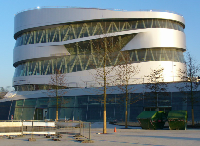 Stuttgart Bad Cannstatt new Mercedes-Benz Museum Januar 2006